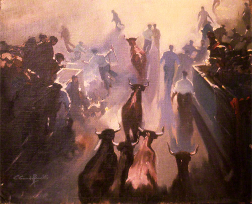 Oil painting by Claude Buckle showing the event in Pamplona 'running of the bulls'. The picture shows the entrance of the bull ring at the end of run with bulls and people mingled together. Pamplona is the historical capital city of Navarre, in Spain, and of the former Kingdom of Navarre. The city is famous worldwide for the San Fermín festival, from July 6 to 14, in which the running of the bulls is one of the main attractions. This festival was brought to literary renown with the 1926 publication of Ernest Hemingway's novel, The Sun Also Rises. Created in 1956.